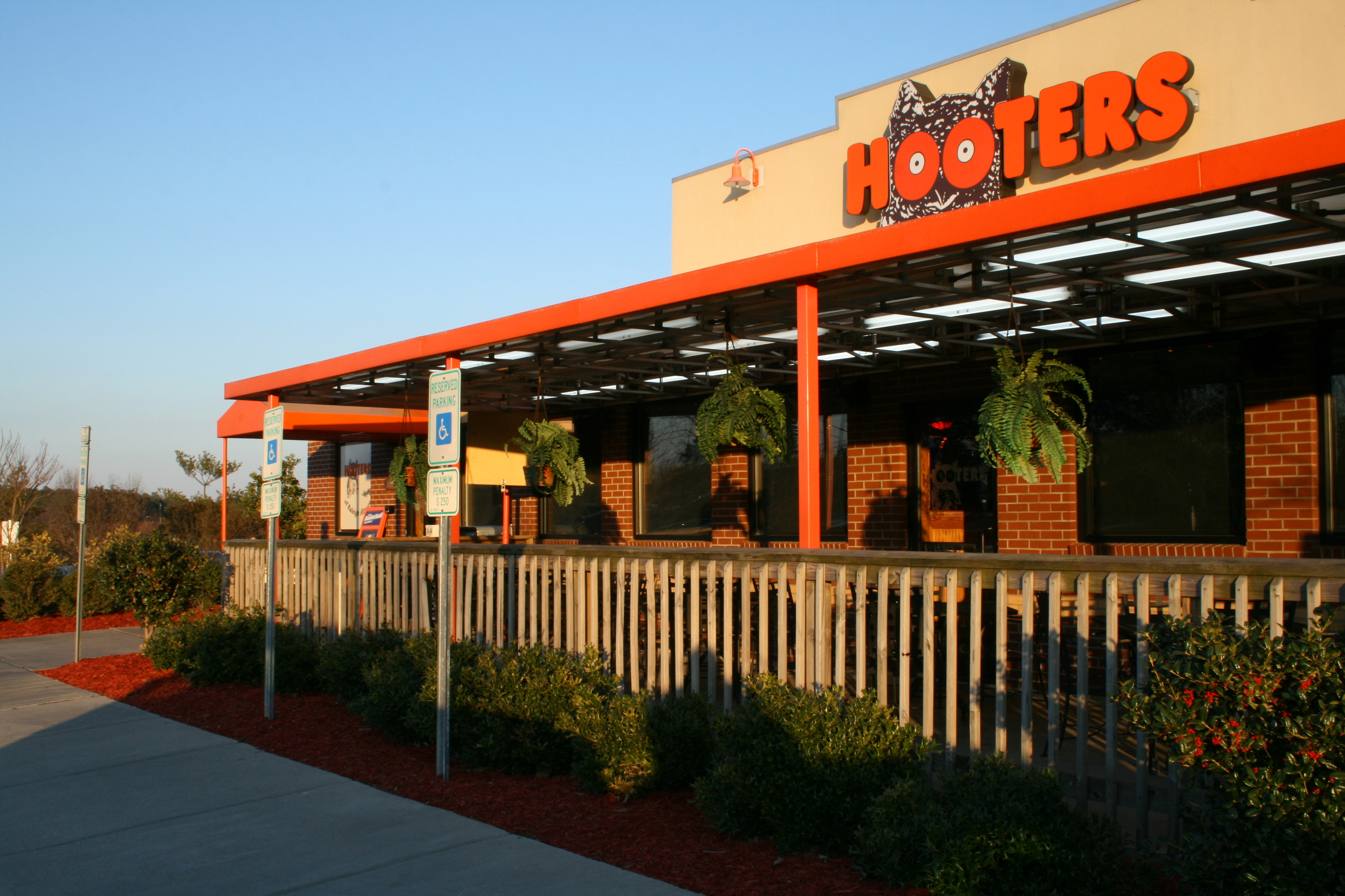 Hooters restaurant at 1001 Claren Circle in Morrisville, North Carolina.